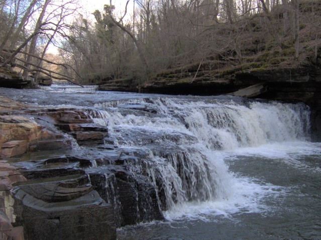 Little Step Falls along the Little Duck River at Old Stone Fort State Archaeological Park near Manchester, Tennessee, in the Southeastern United States.